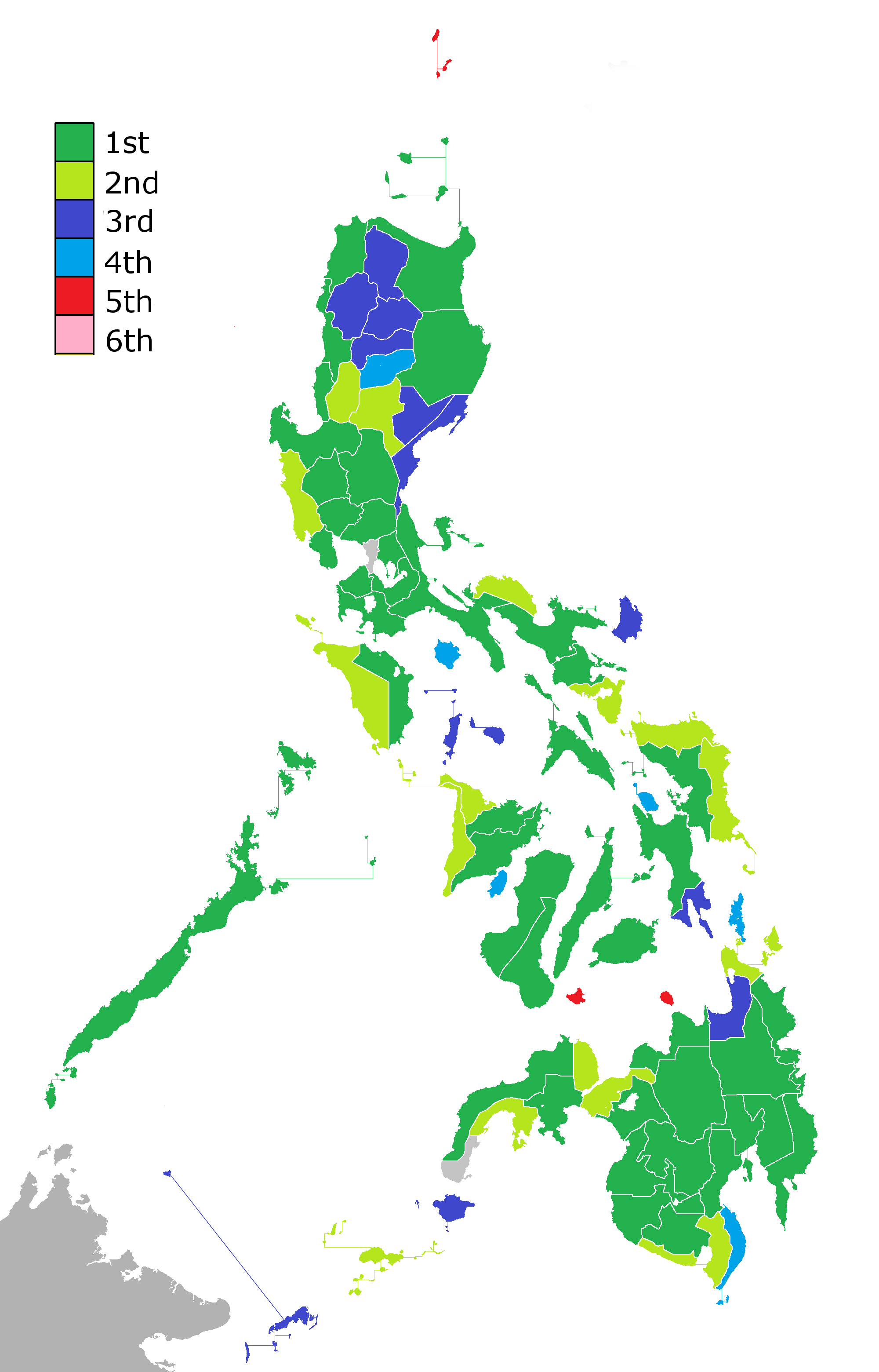 Provinces of the Philippines classified based on income classification.